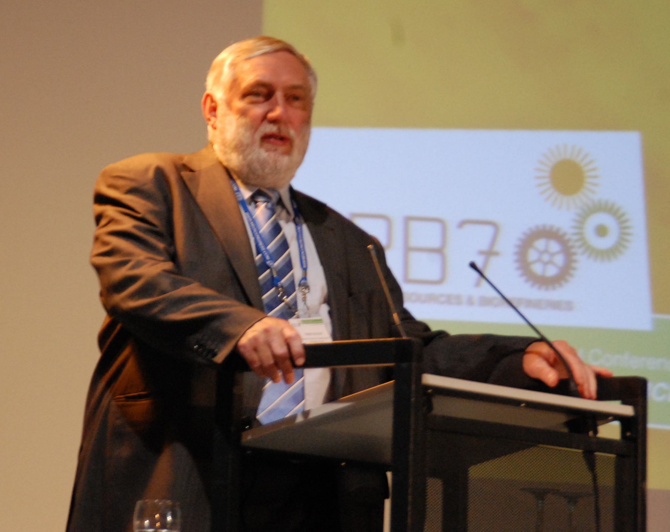 Franz Fischler at the 7th International Conference on Renewable Resources & Biorefineries (RRB7) in Bruges, 09.01.2011